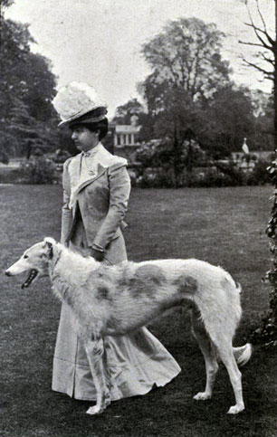 Photograph of Kathleen Florence May, Duchess of Newcastle. Wife of Francis Pelham-Clinton-Hope, Henry Pelham-Clinton, 7th Duke of Newcastle-under-Lyne. Photographed her with one of her champion Borzois.